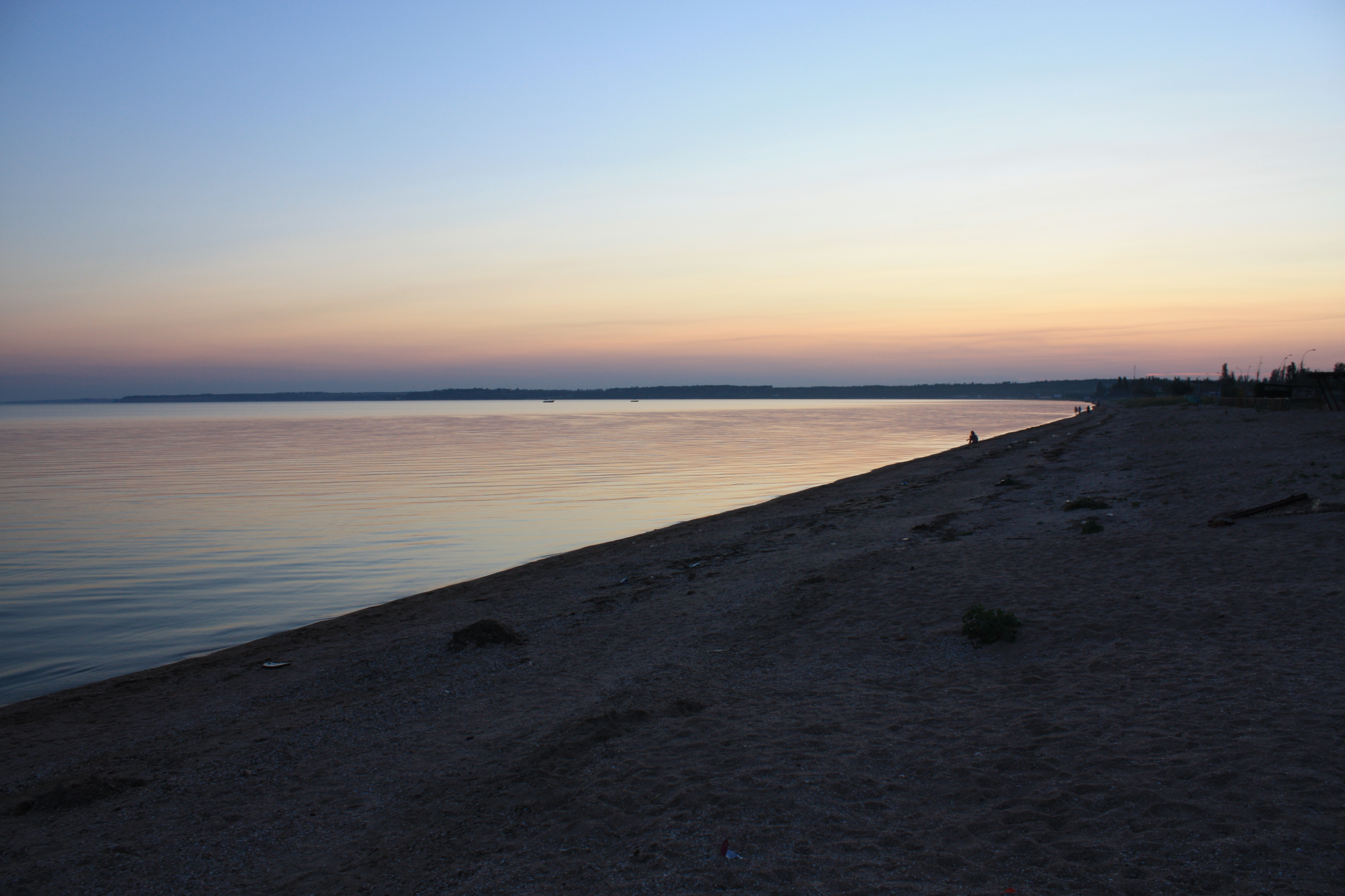 Azov Sea in New Yalta, Donetsk Region. Sunset Sun.